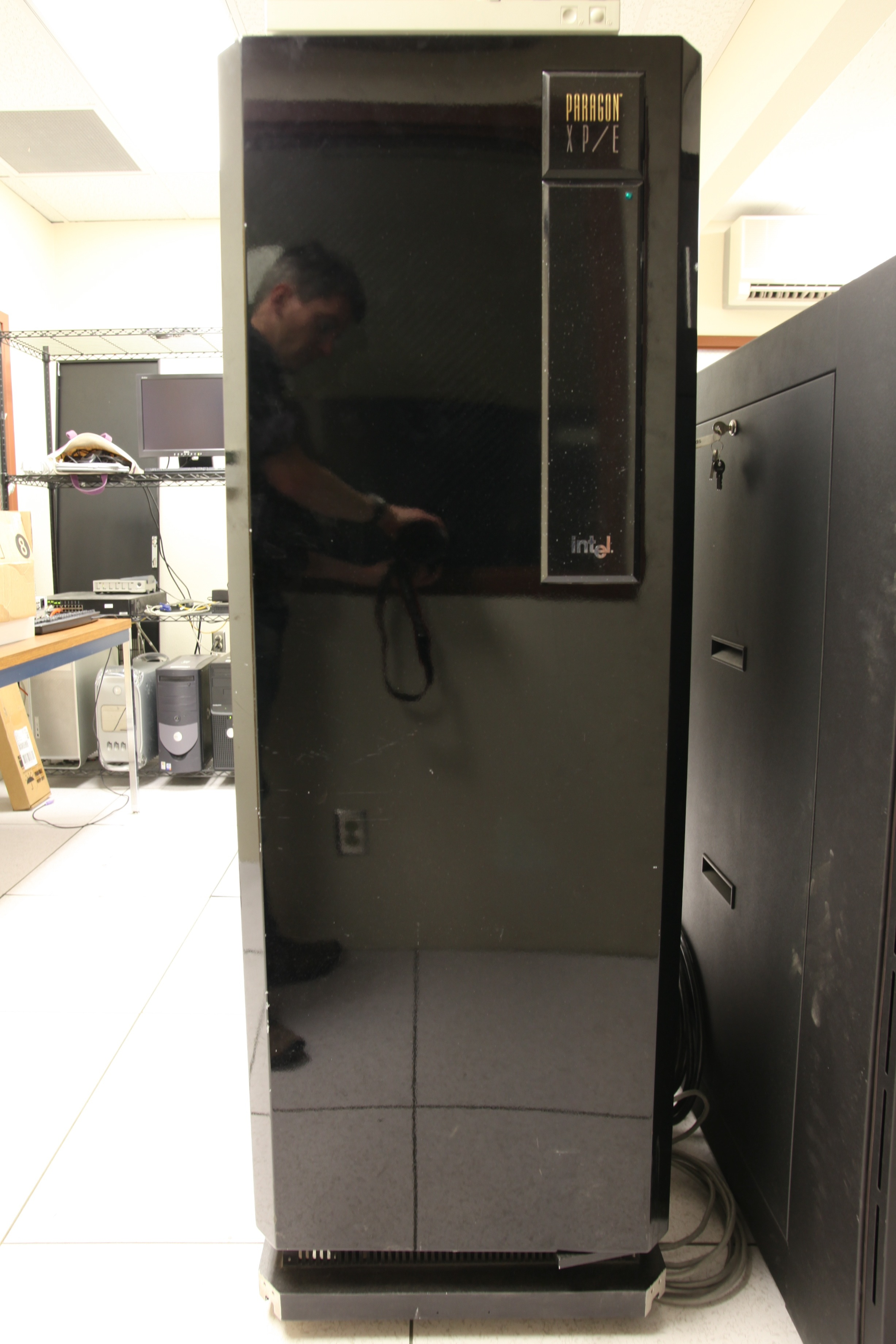 Intel Paragon XP-E front cabinet